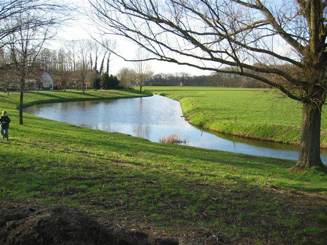 A pond of the Hasseler stream.